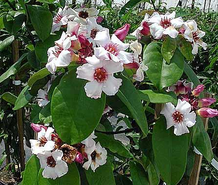 fleurs du strophantus gratus